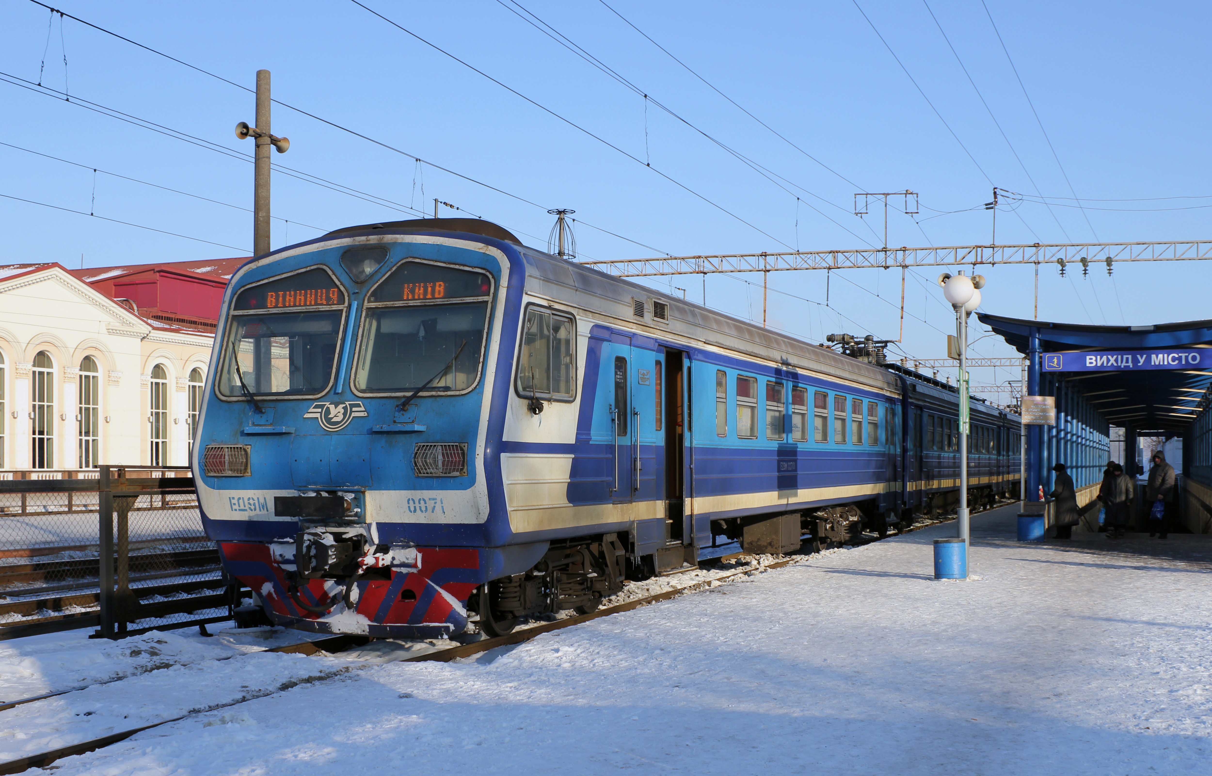 Electric multiple unit ED9M-0071 in Vinnitsa railway station.